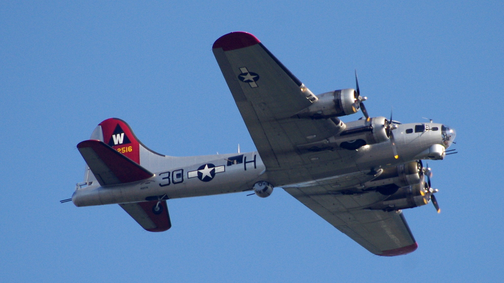 B-17 "Aluminum Overcast" flying over Piqua Ohio on Sept 5, 2017